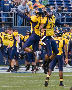 California Golden Bears face off against Texas A&M in 2006 Holiday Bowl.